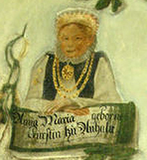 Anna Maria of Anhalt, Duchess of Brieg